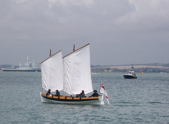 HMS Victory Cutter 1- Portsmouth 1805 Re-enactment in Portsmouth Harbour. This is a replica 25ft cutter of the type used by HMS Victory.It can either be rowed by 6 men, or sailed using the two dipping lugsails as shown. It was one of the commonest work boats of the Nelsonian navy. Taken from Gosport ferry during the occasion of " Meet your Navy 2008" HMS Intrepid can be seen in the background, still awaiting its fate. [1]